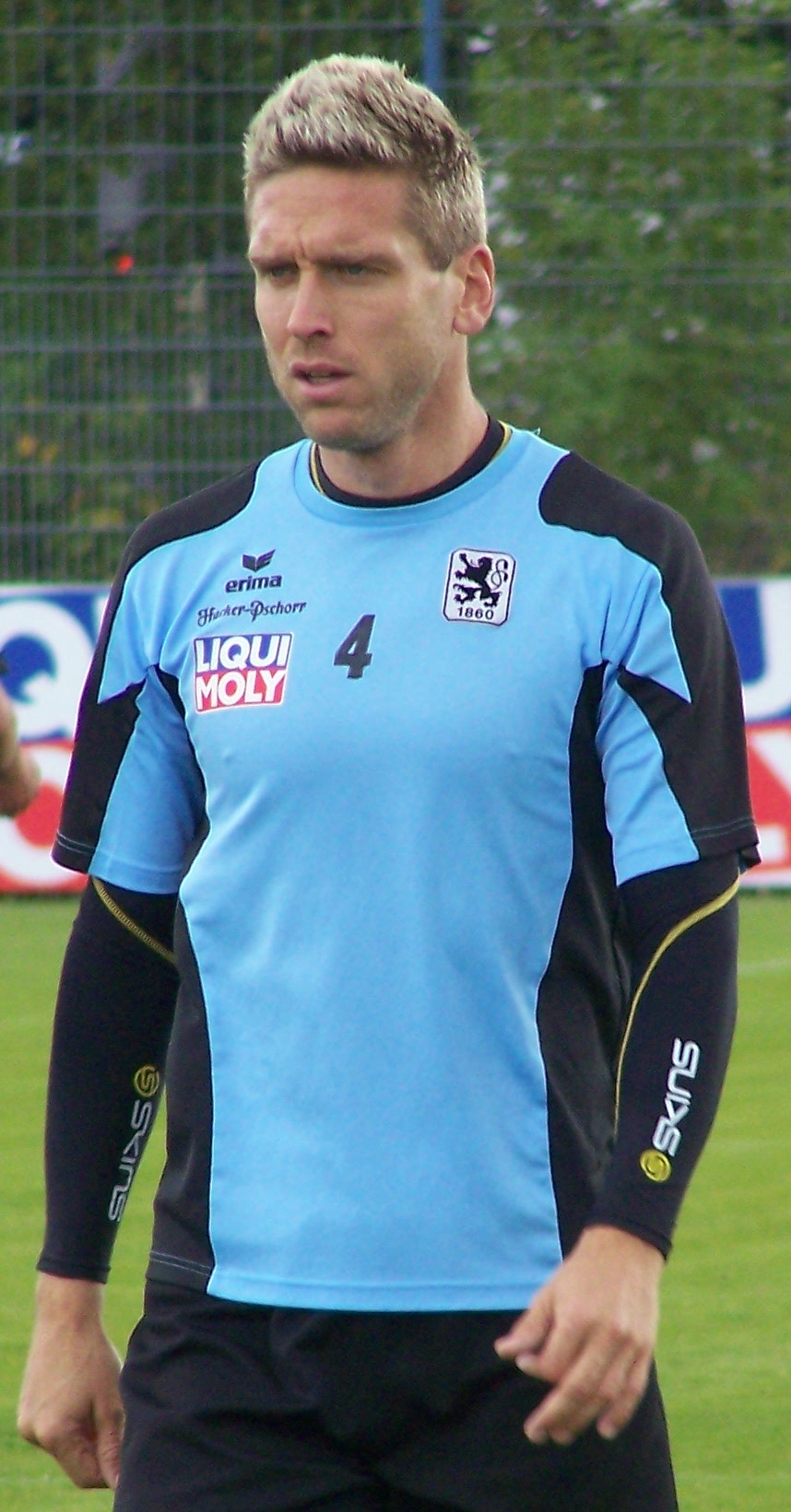 Torben Hoffmann, 1860 munich, training